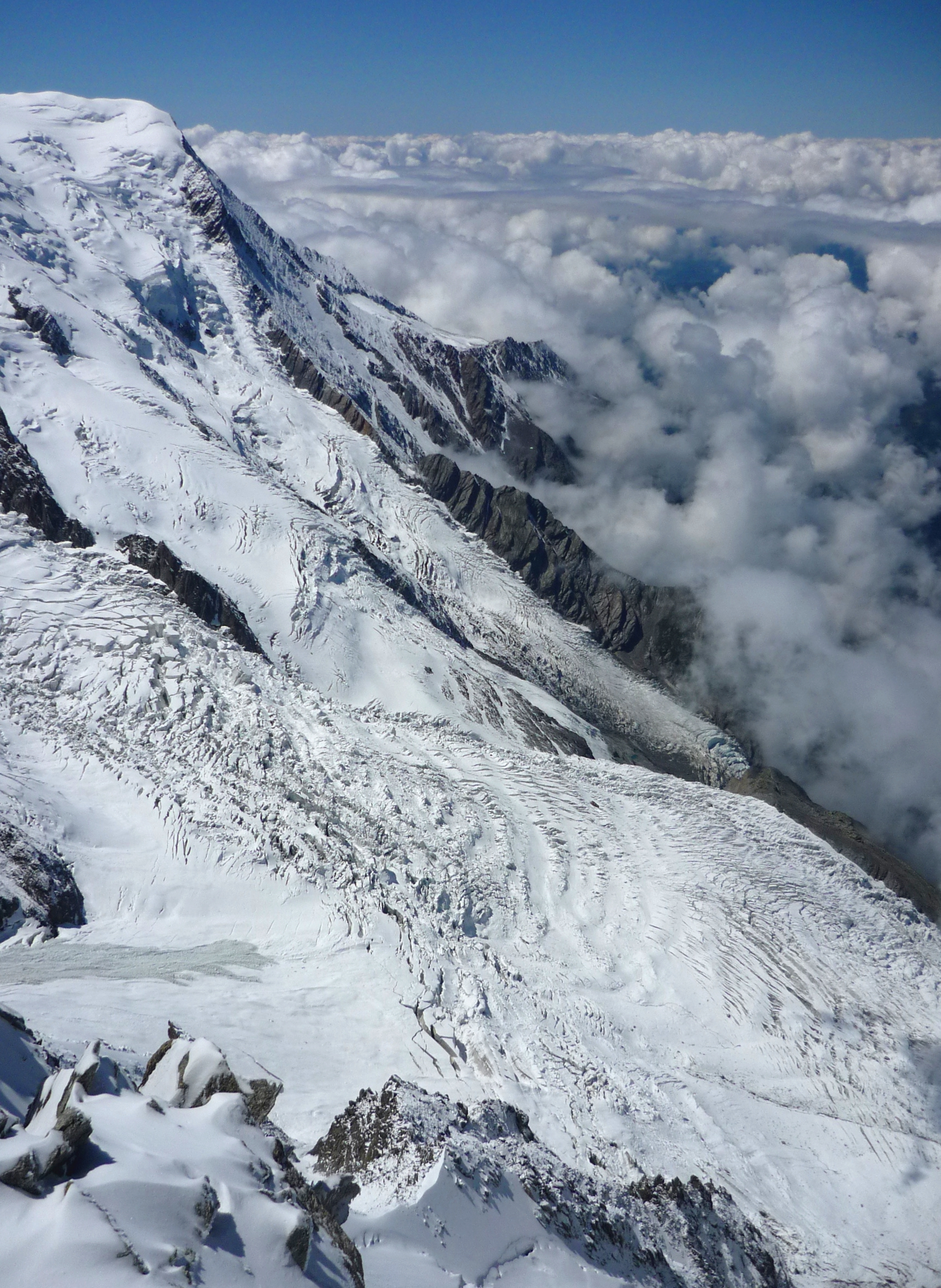 Bossons and Taconnaz Glaciers, aiguille du Goûter et les Grands Mulets seen from aiguille du Midi, Chamonix-Mont-Blanc, Haute-Savoie, France